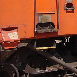 Wide stirrup on Class 6E1 Series 3 no. E1346Location: Beaconsfield, Kimberley, Northern CapeRebuilding: In 2013 E1346 re-entered service after being rebuilt to Class 18E 18-748